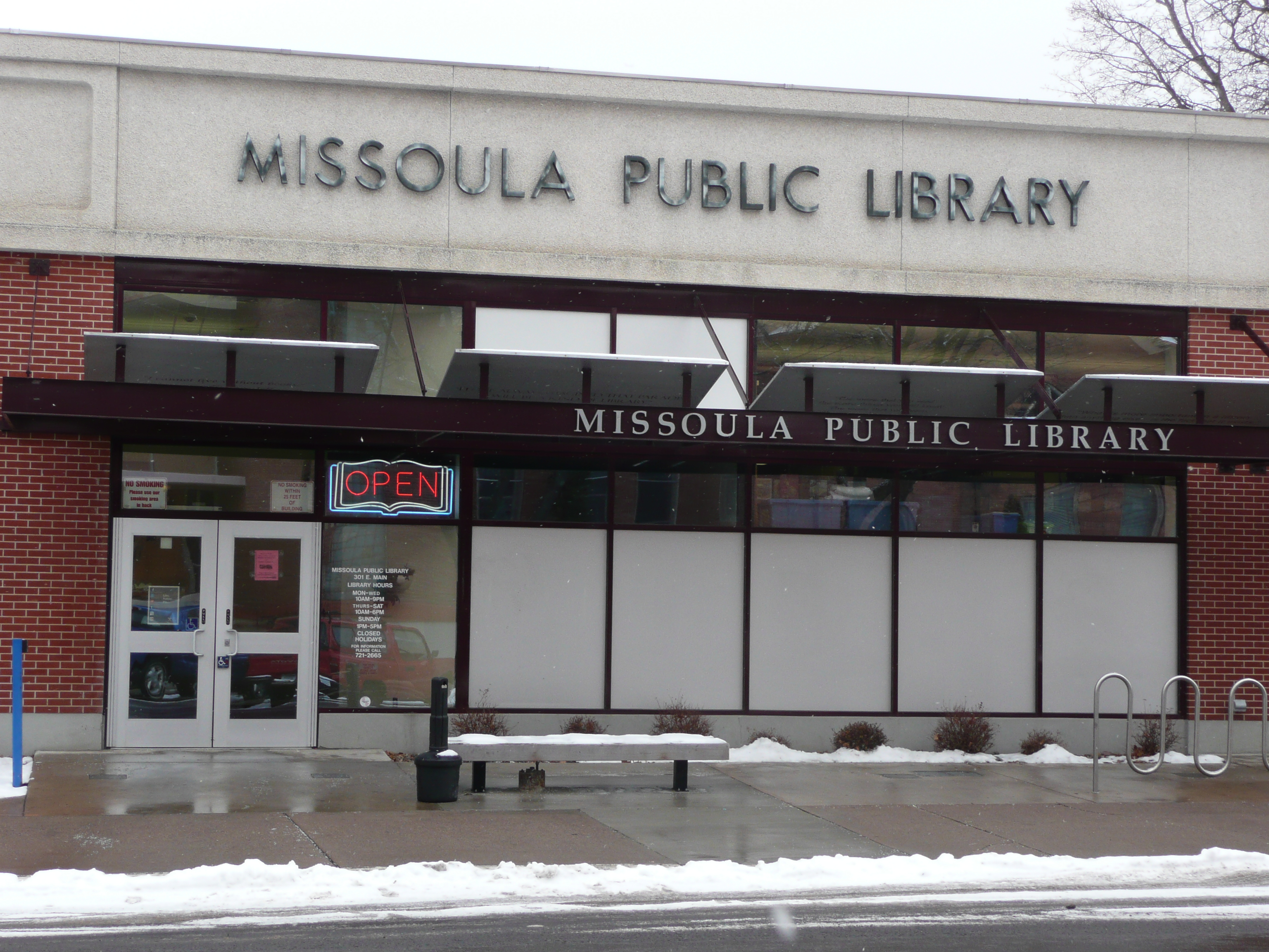 Missoula Public Library street entrance 2012